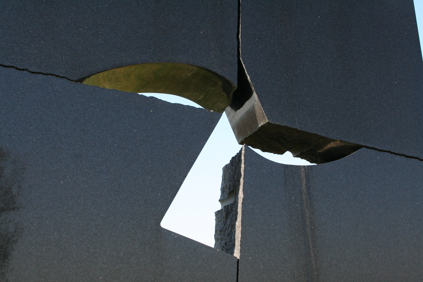 Ovčara Massacre Memorial – Detail from the monument.